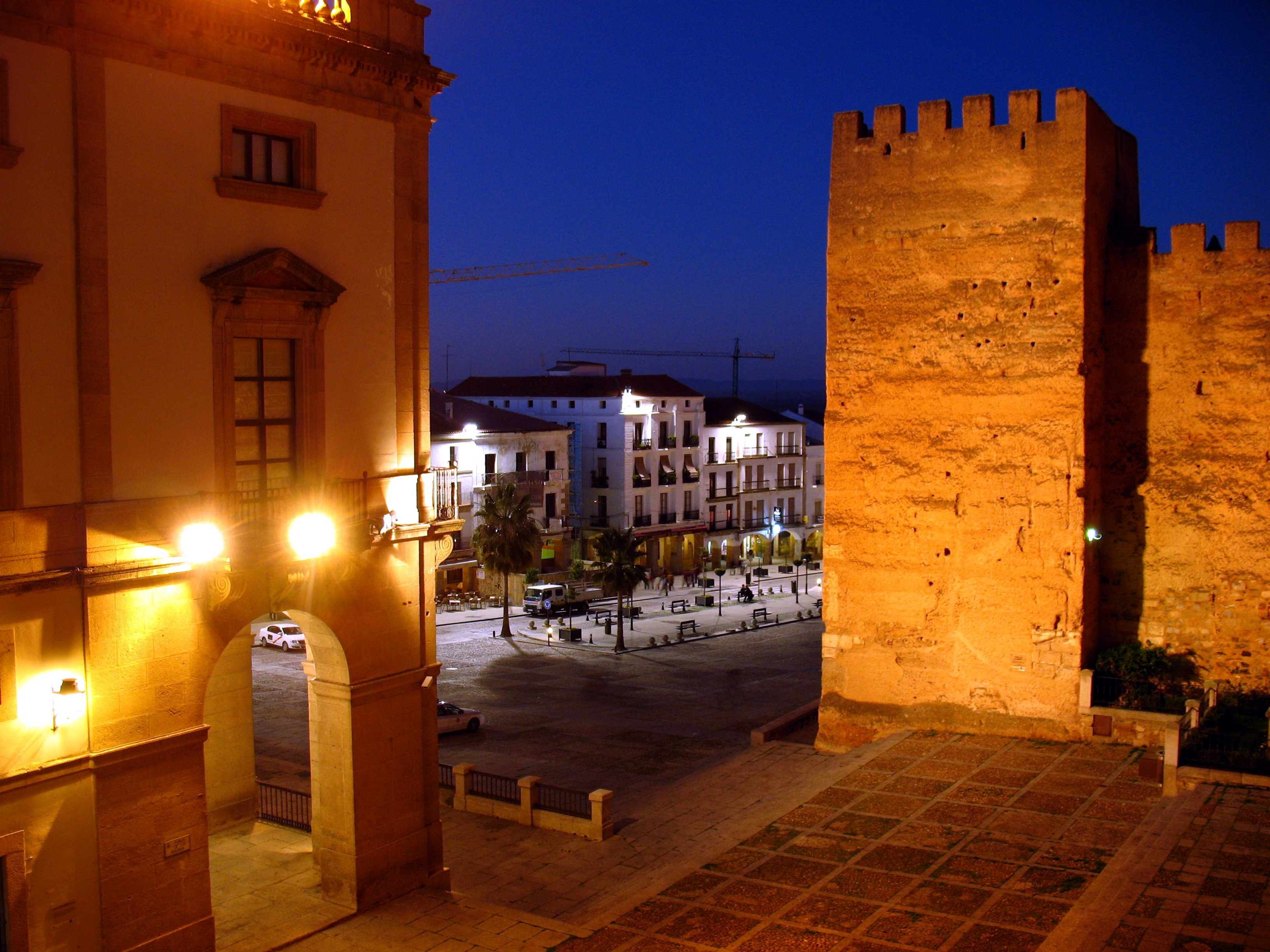 Nigth view of Cáceres´ Plaza Mayor where you can see part of the City Hall (left) and part of the Old City walls (right)